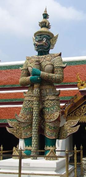 Thosakanth - one of twelve giant demons (Yaksha), characters from the Thai Ramakien epic, guarding the middle western gate of Wat Phra Kaew to Grand Palace. It has a green face and three tiers of three heads, his crown is topped with a chai